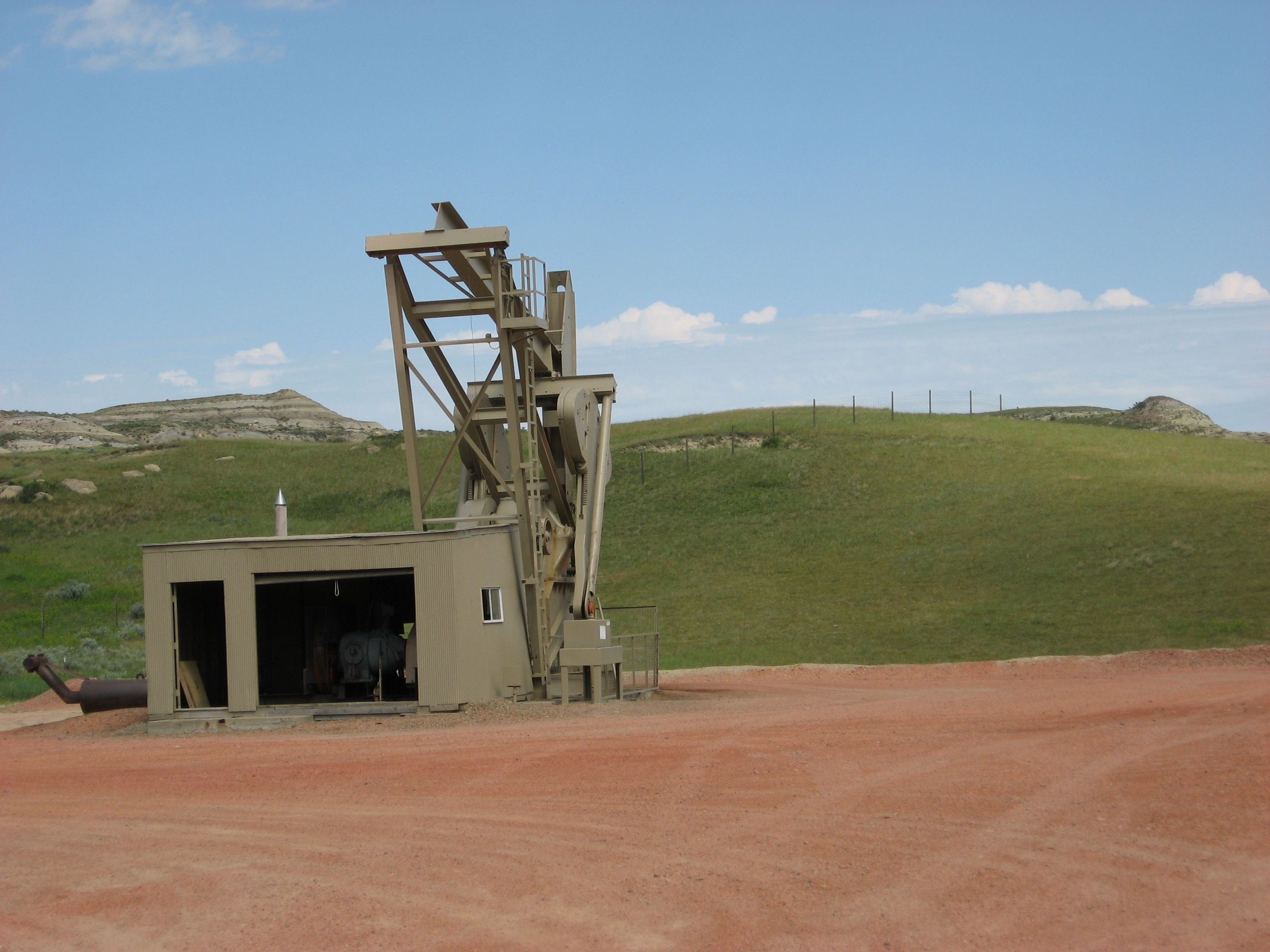 An Oil Pump in western North Dakota